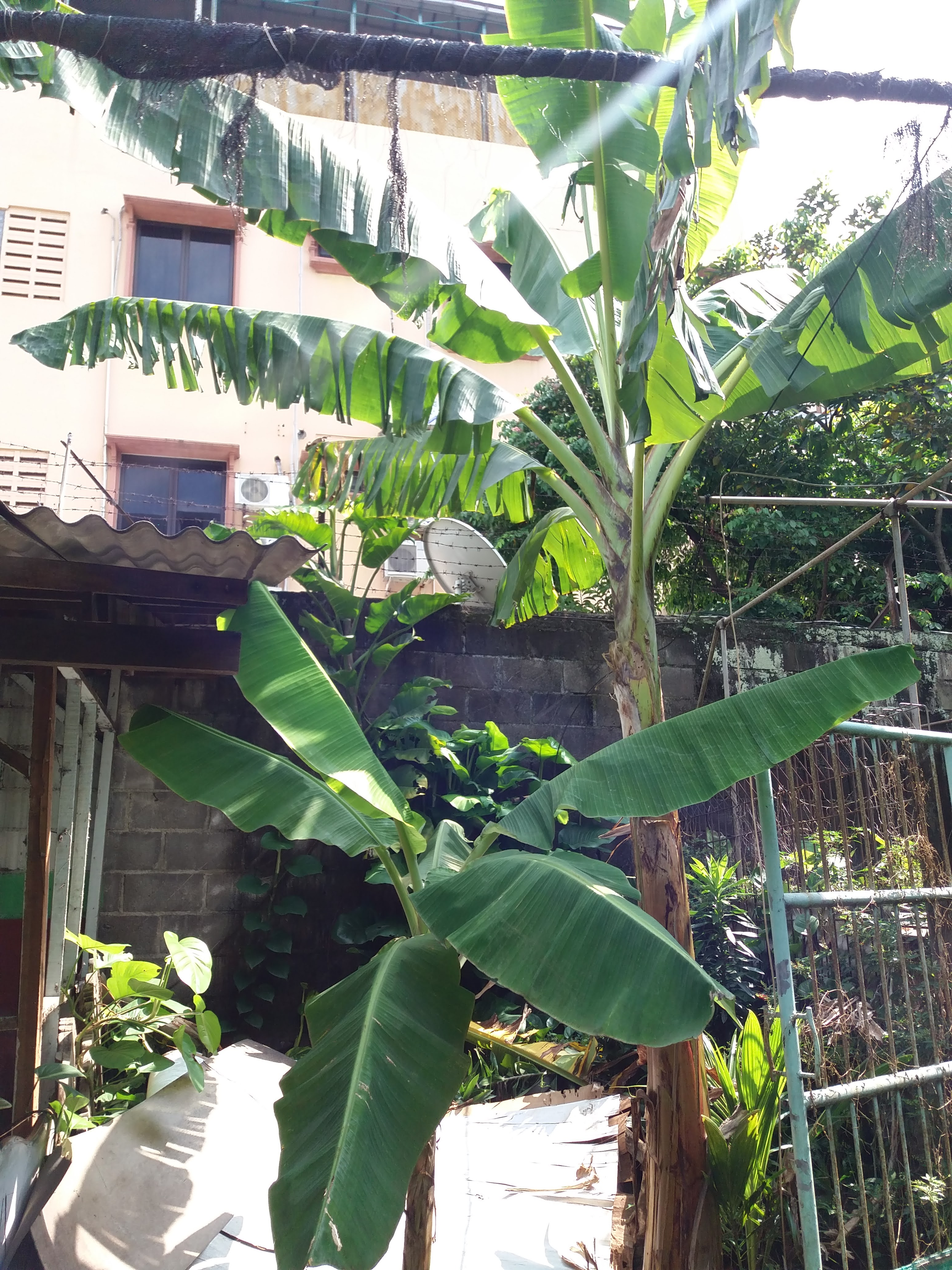 Tanduk banana tree has a distinctive stature, the leaf growth grows rather horizontal sidewise.